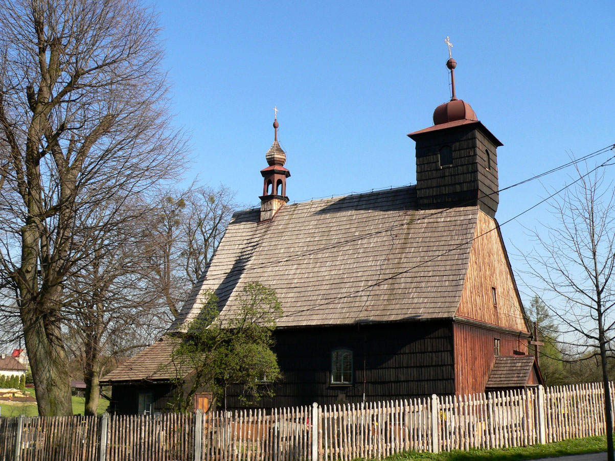 Archangel Michael Church in Řepiště, Czech Republic.